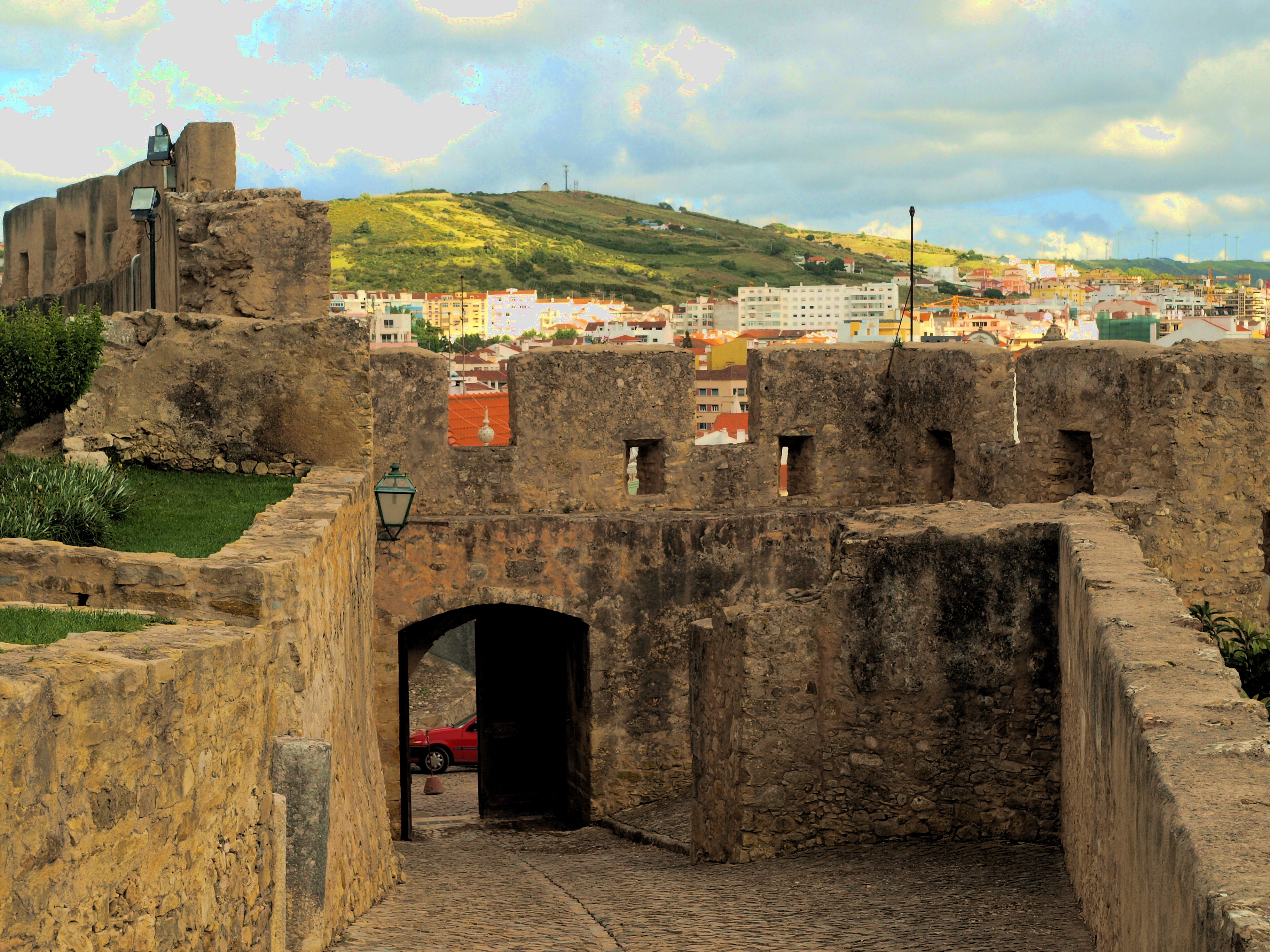 Inner view of the castle of Torres Vedras, Portugal.